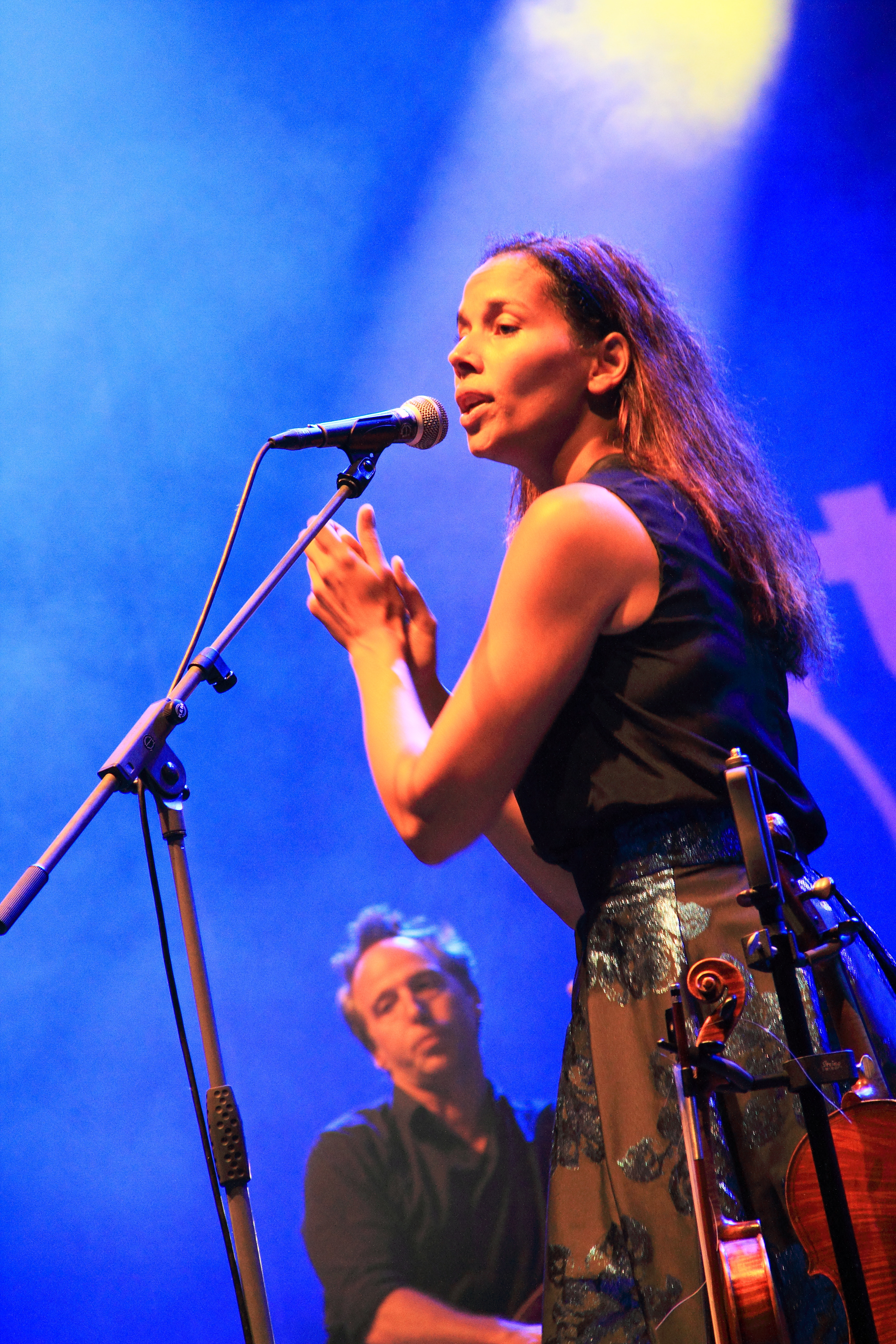 Rhiannon Giddens from North Carolina with band at TFF Rudolstadt 2015.